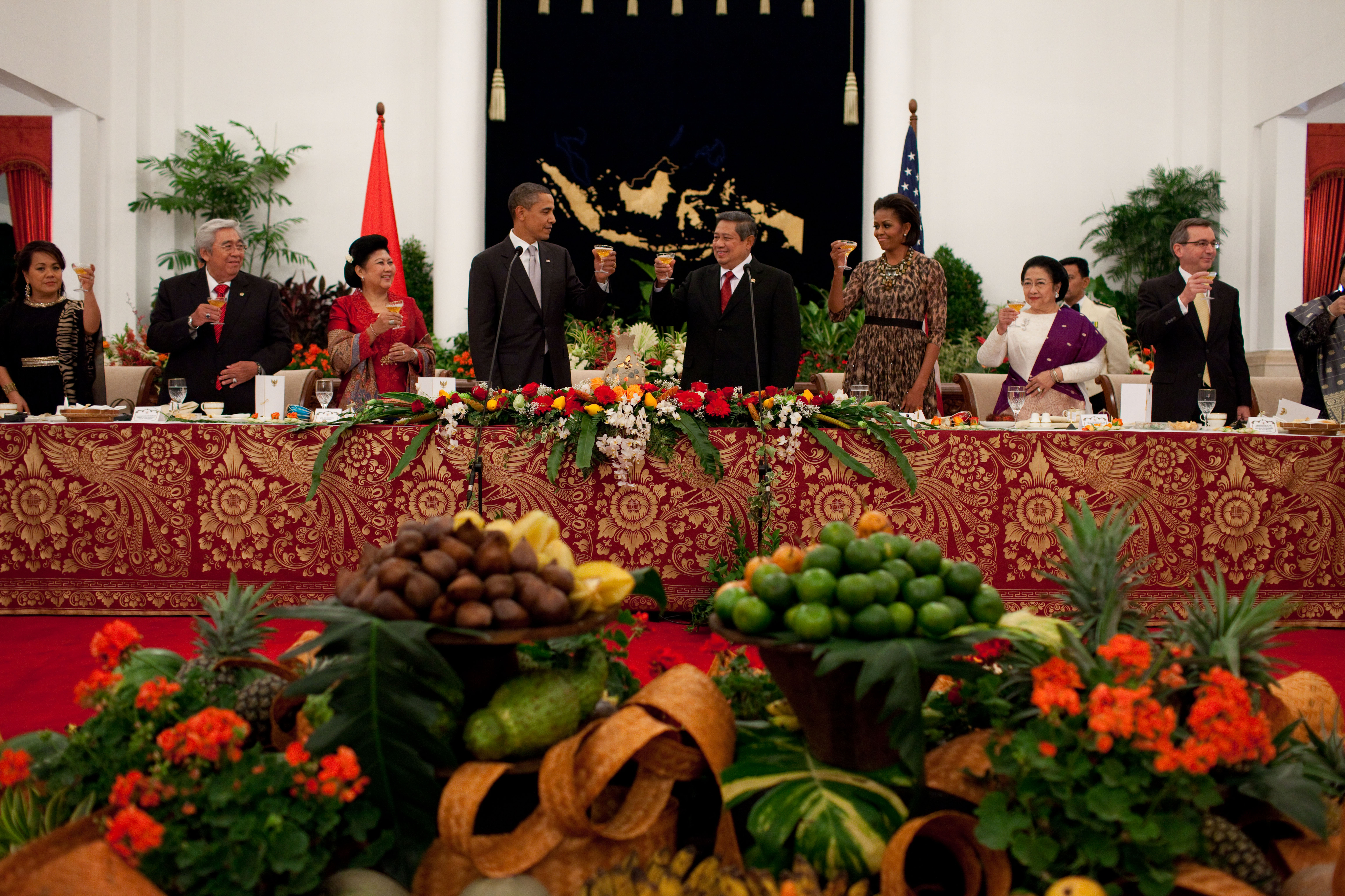 United States President Barack Obama offers a toast during the state dinner hosted by President Susilo Bambang Yudhoyono at the Istana Negara State Palace in Jakarta on 9 November 2010.